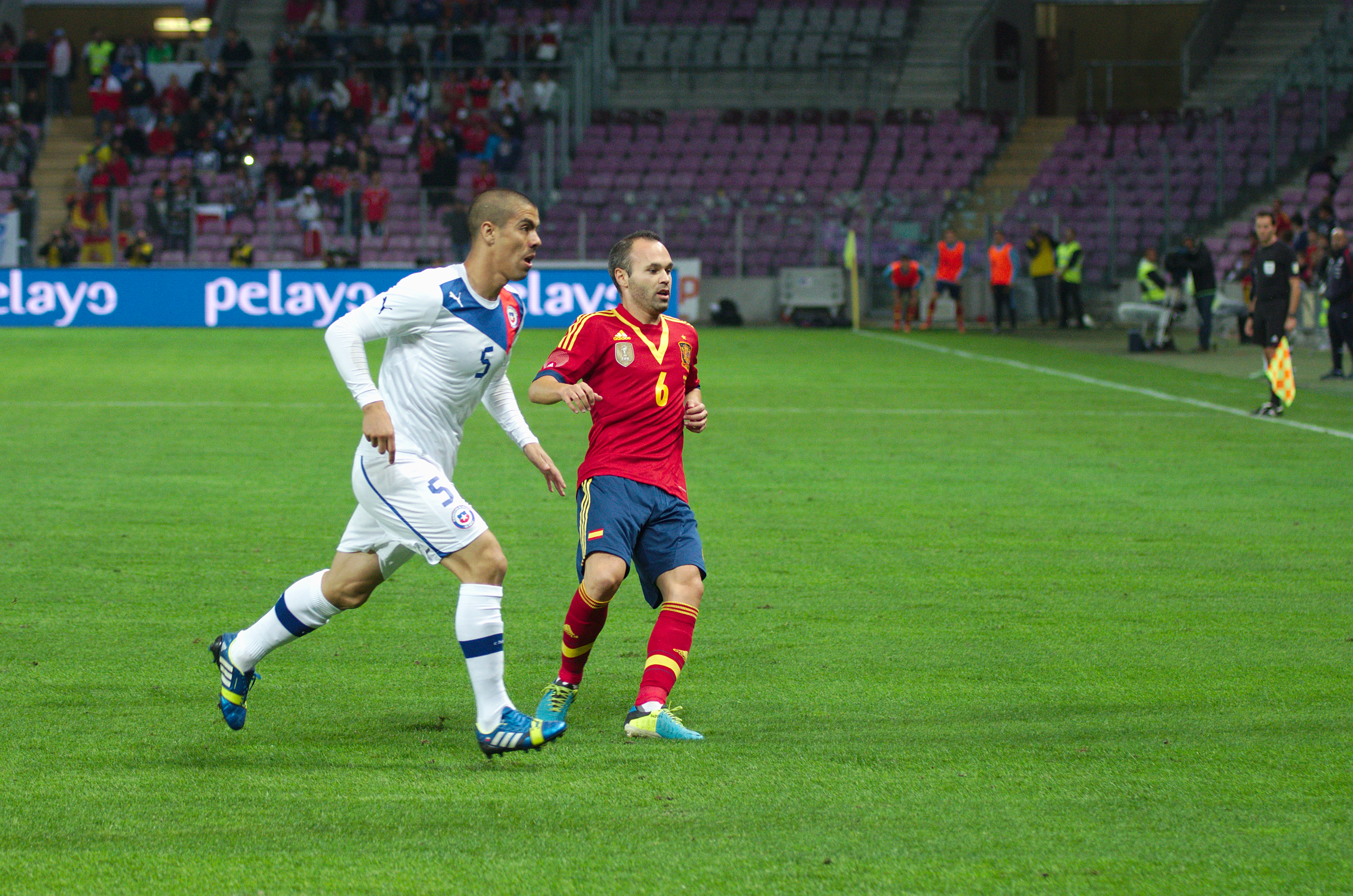 Spain - Chile - 10-09-2013 - Geneva - Francisco Silva and Andres Iniesta